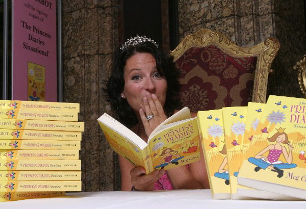 Author Meg Cabot at a UK book signing in October 2004.